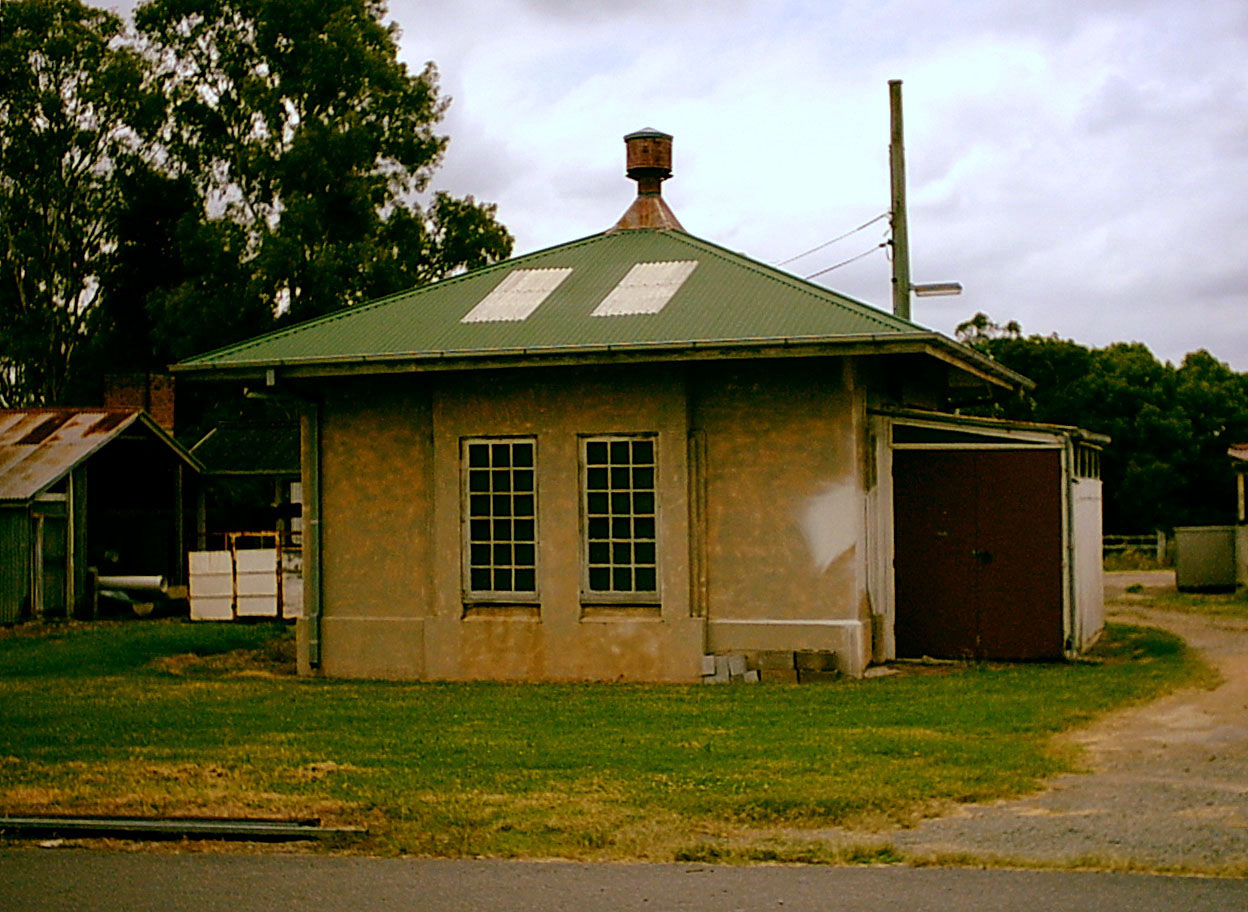 Animal Morgue, erected in 1934, also known as the Ex-Surgery Block. A facility for undertaking animal post mortems. Constructed of concrete for ease of cleaning and hygiene, Robinson's Patent ventilator on the roof.